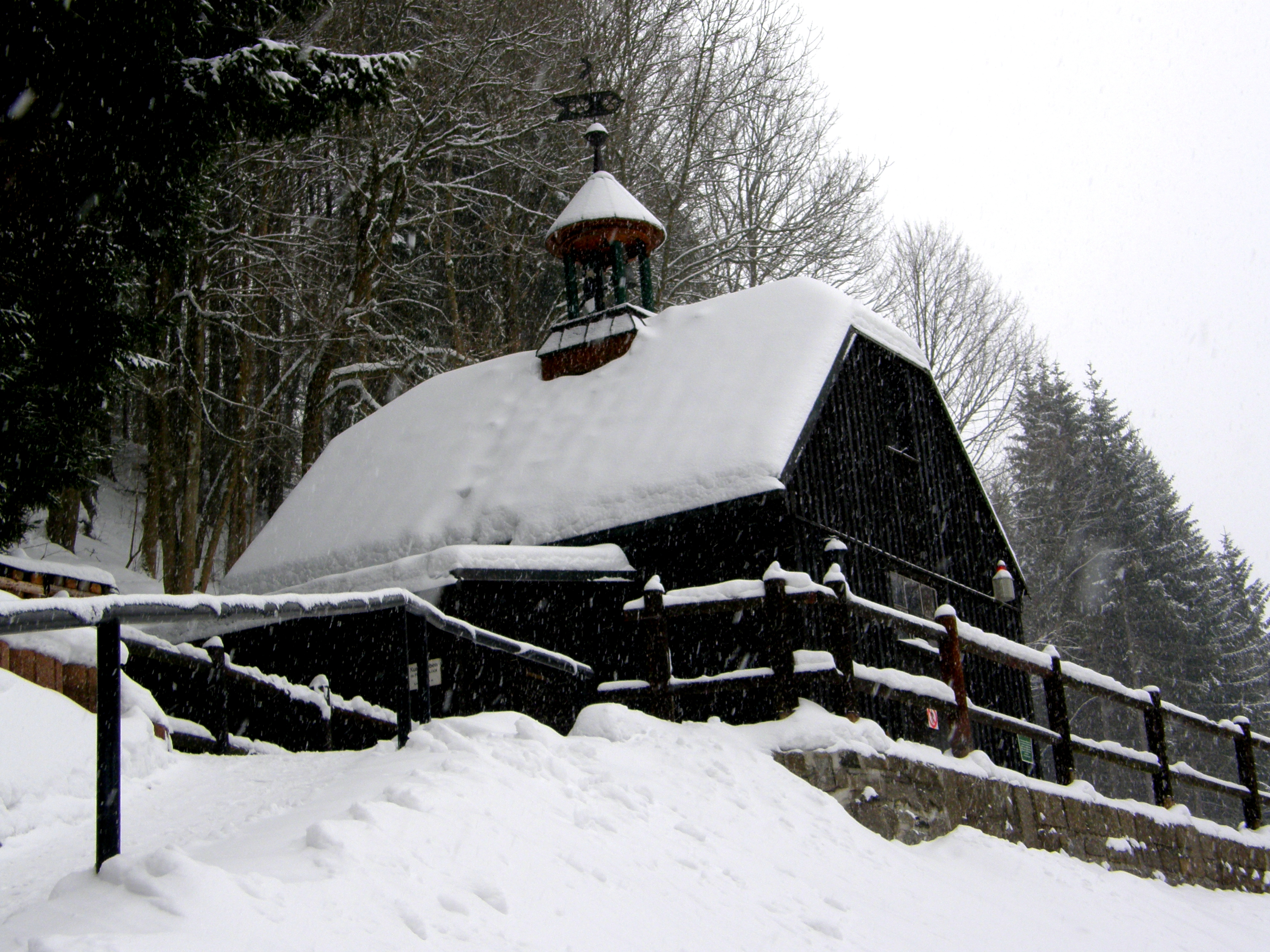 The mine house at the "Frisch Glueck" adit in Johanngeorgenstadt, Germany